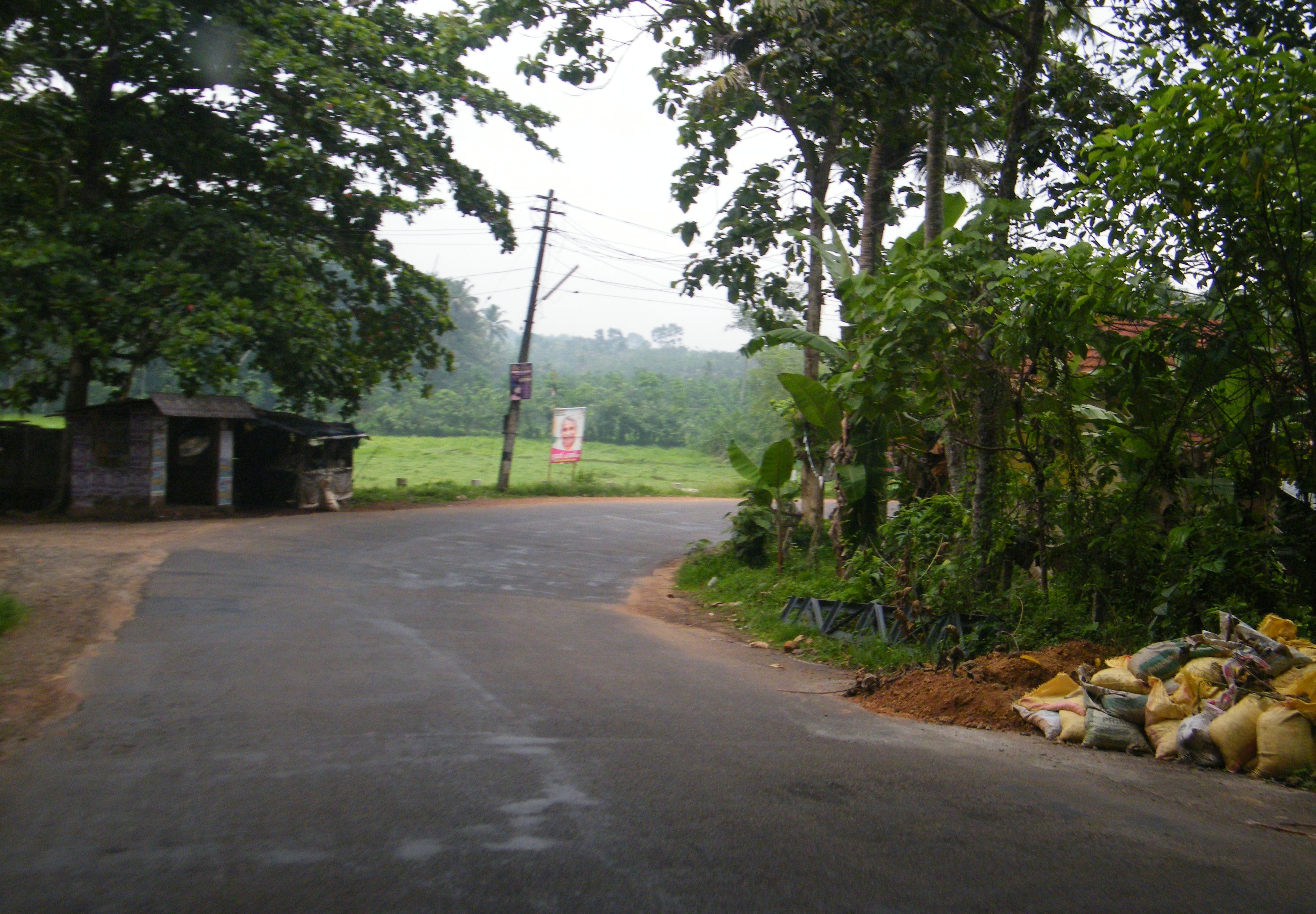 this is a road route from chaganassery to vakathanam.